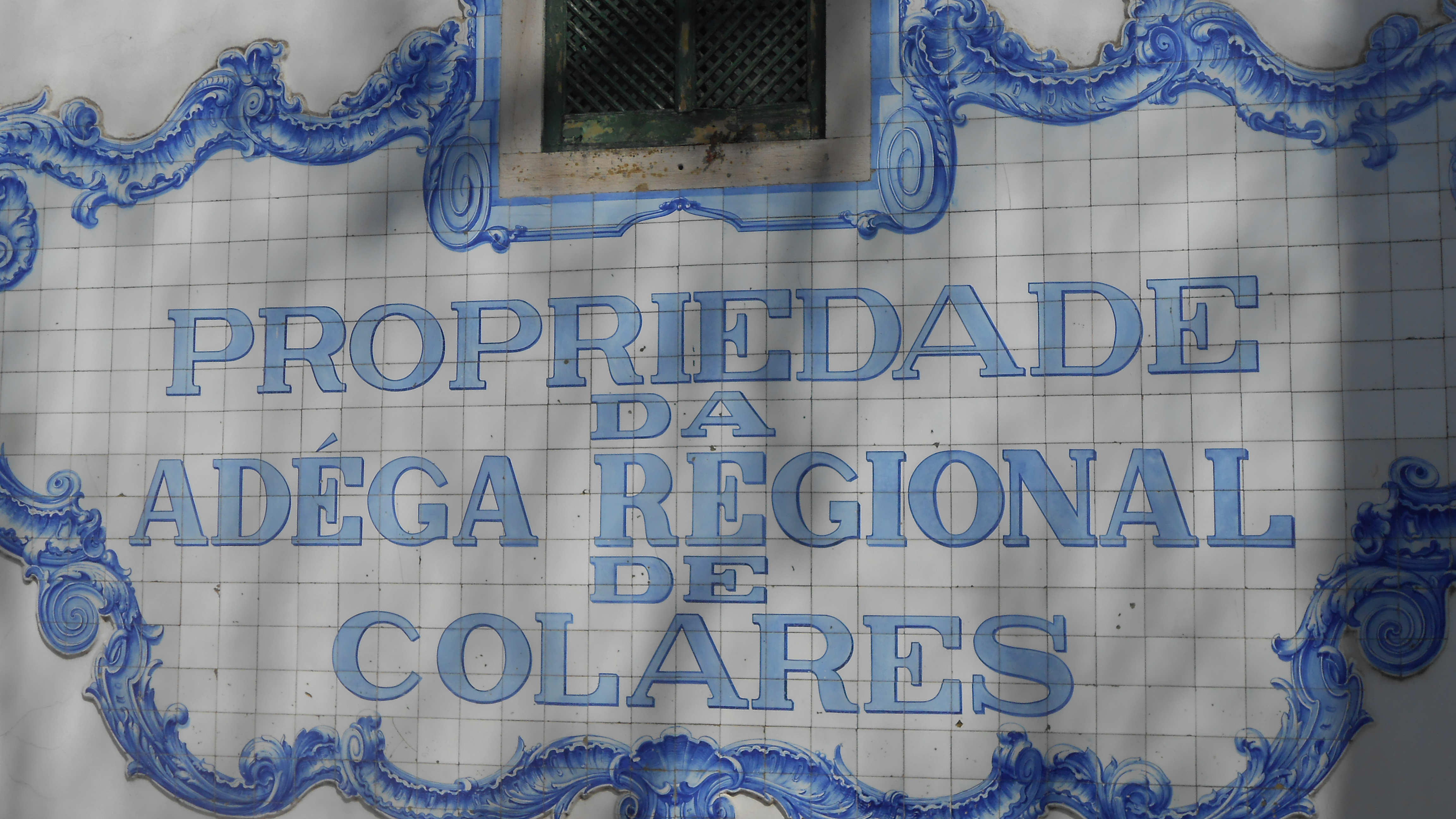 Azulejos in Colares, Sintra municipality, district of Lisbon, Portugal.